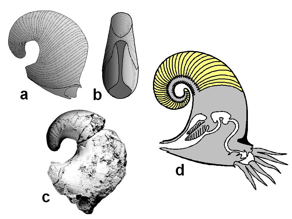 characters of genus Phragmoceras, a typical nautiloid of order Discosorida; a)schematic lateral view of a shell; b) oral view of a shell; c) fossil specimen (image from Manda S., 2008, Bull.Geosci.; 83(1), modified); d) ideal reconstruction in life position.